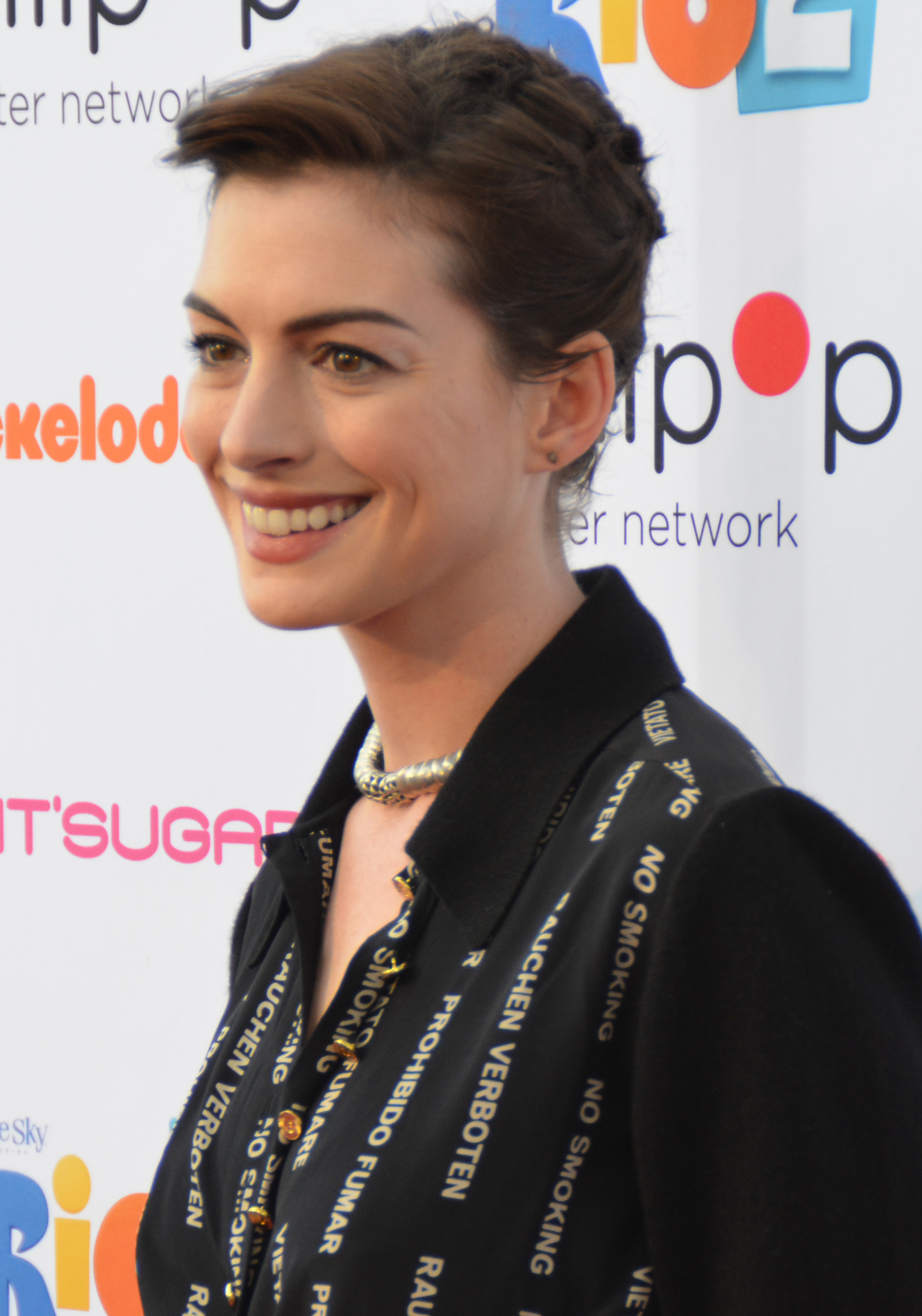 Mingle Media TV and Red Carpet Report host Kristina Rivera were invited to cover the Lollipop Theater Network’s Night Under The Stars hosted by Anne Hathaway featuring a screening of Rio2 at Nickelodeon studios in Burbank, CA. Follow our host Kristina on Twitter at